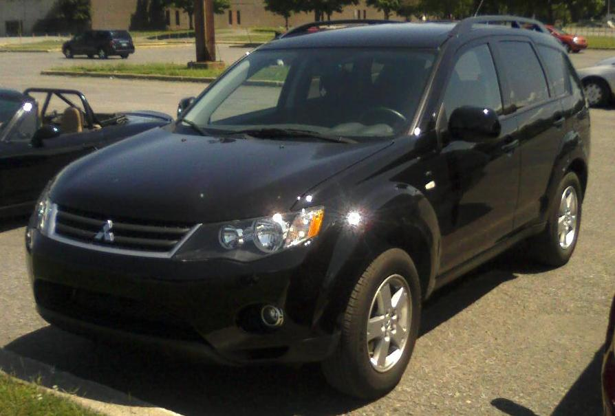 2008 Mitsubishi Outlander photographed in Montreal, Quebec, Canada.